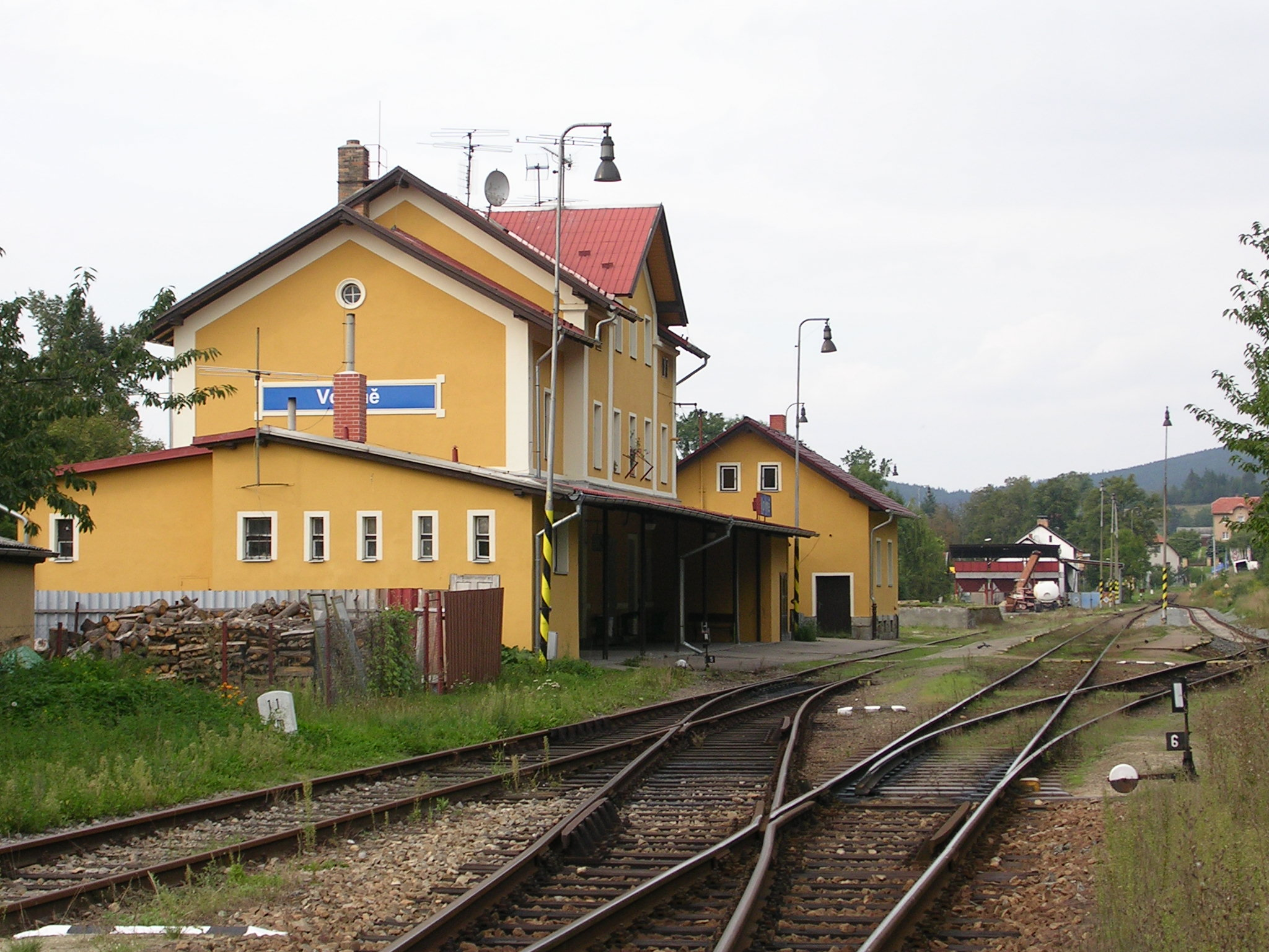 Railway station Volyně, South Bohemian Region, Czech Republic.